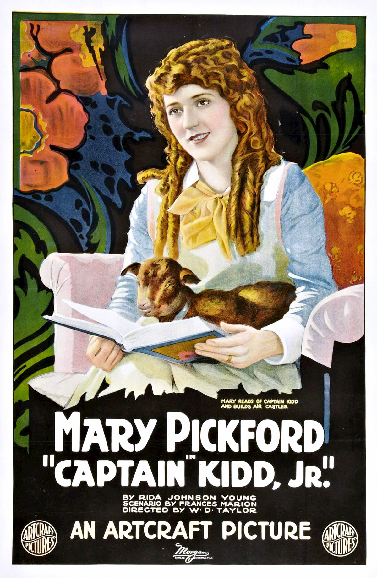 Poster for the 1919 film Captain Kidd., Jr.